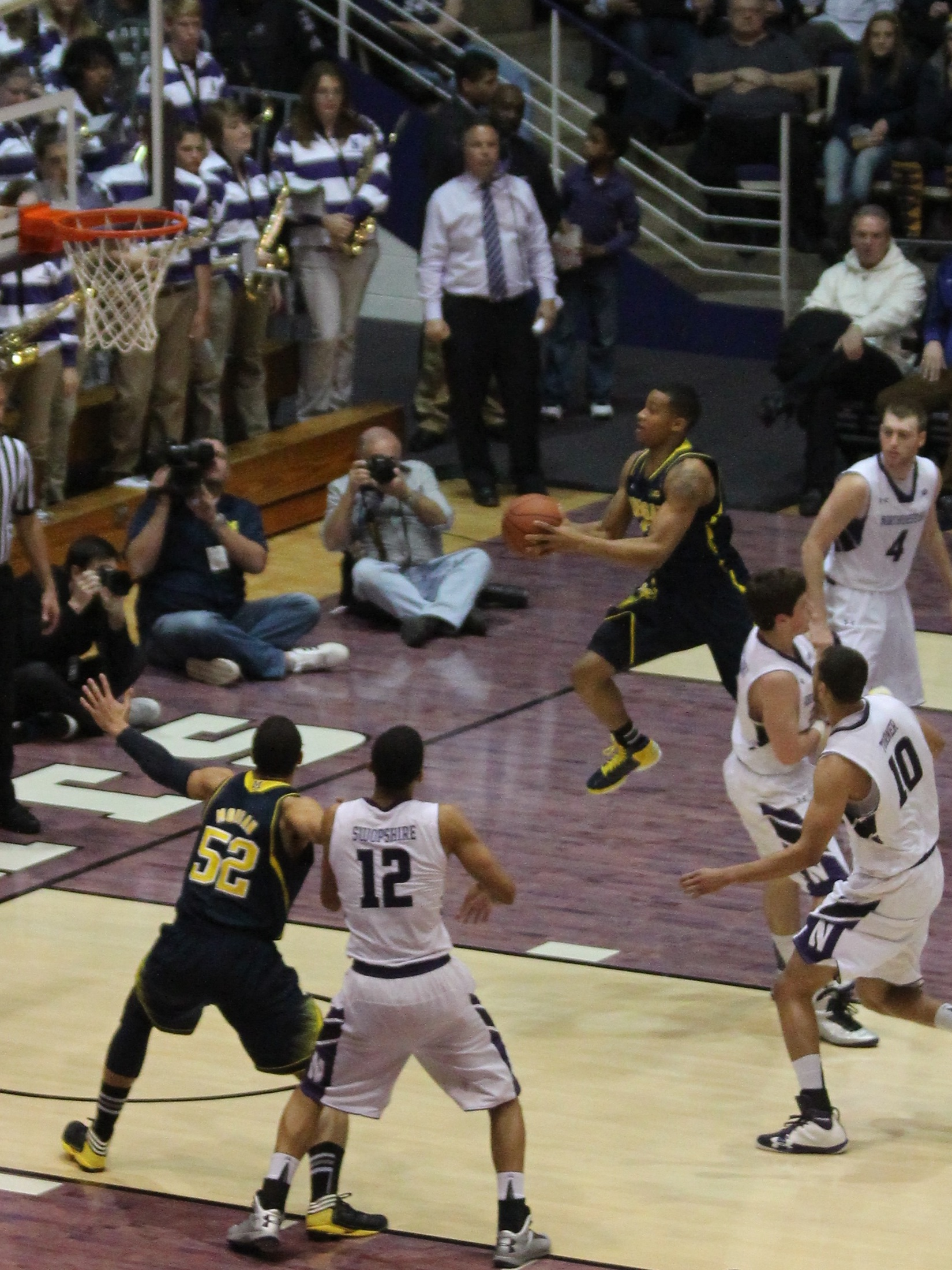 Trey Burke driving for the 2012–13 Michigan Wolverines men's basketball team against 2012–13 Northwestern Wildcats men's basketball team